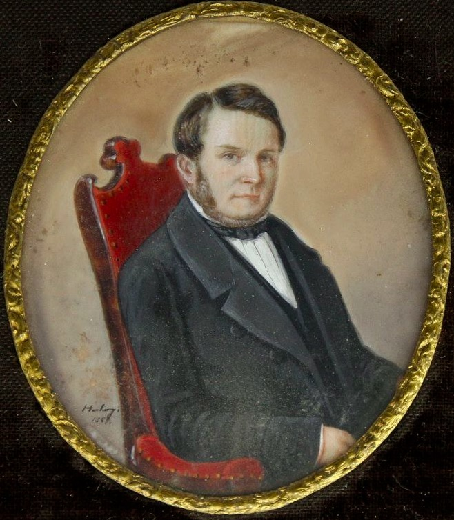 Heinrich Carl Theodor Goetz (1806-1885)